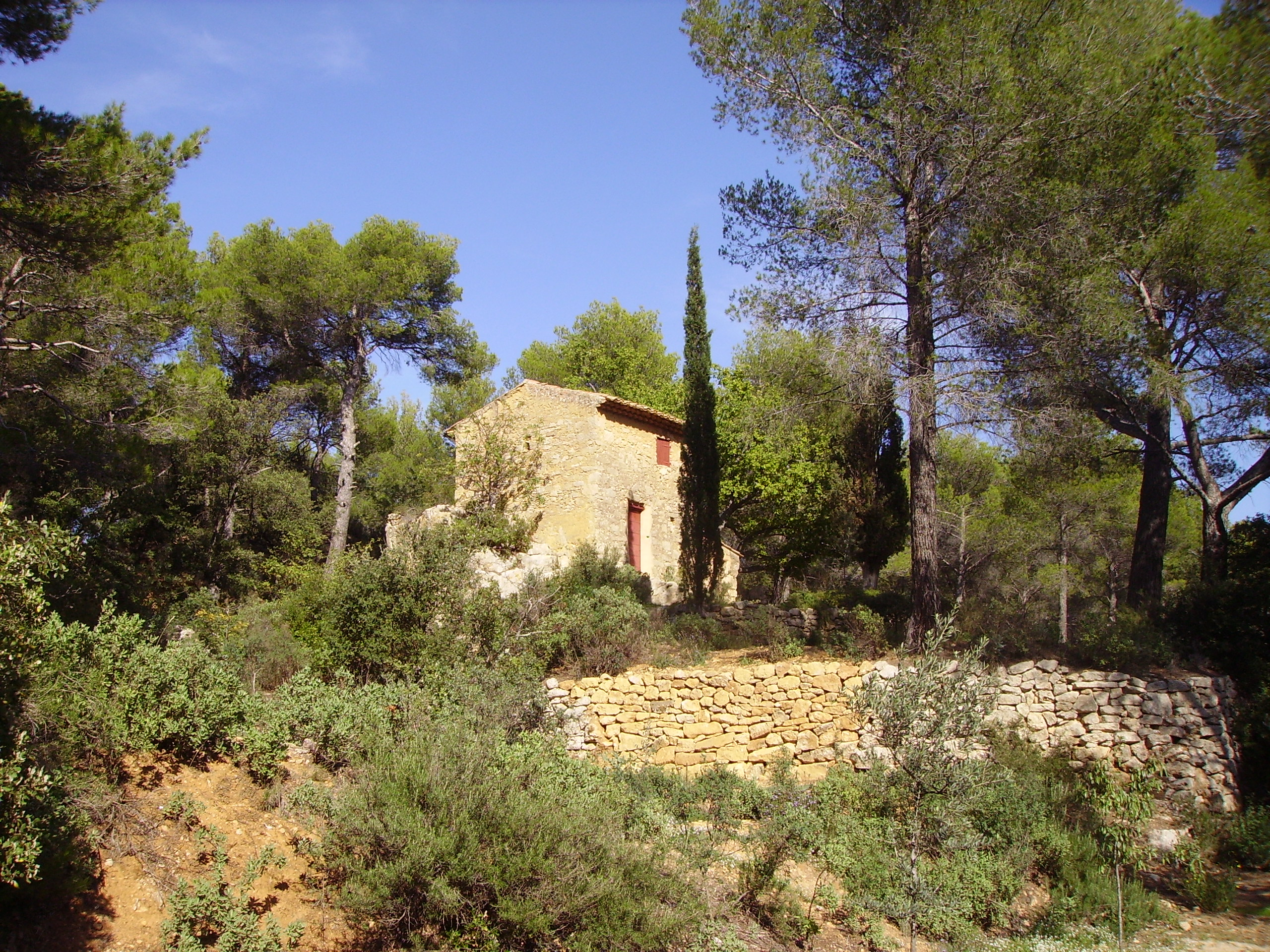 Photographer: User:Ballista